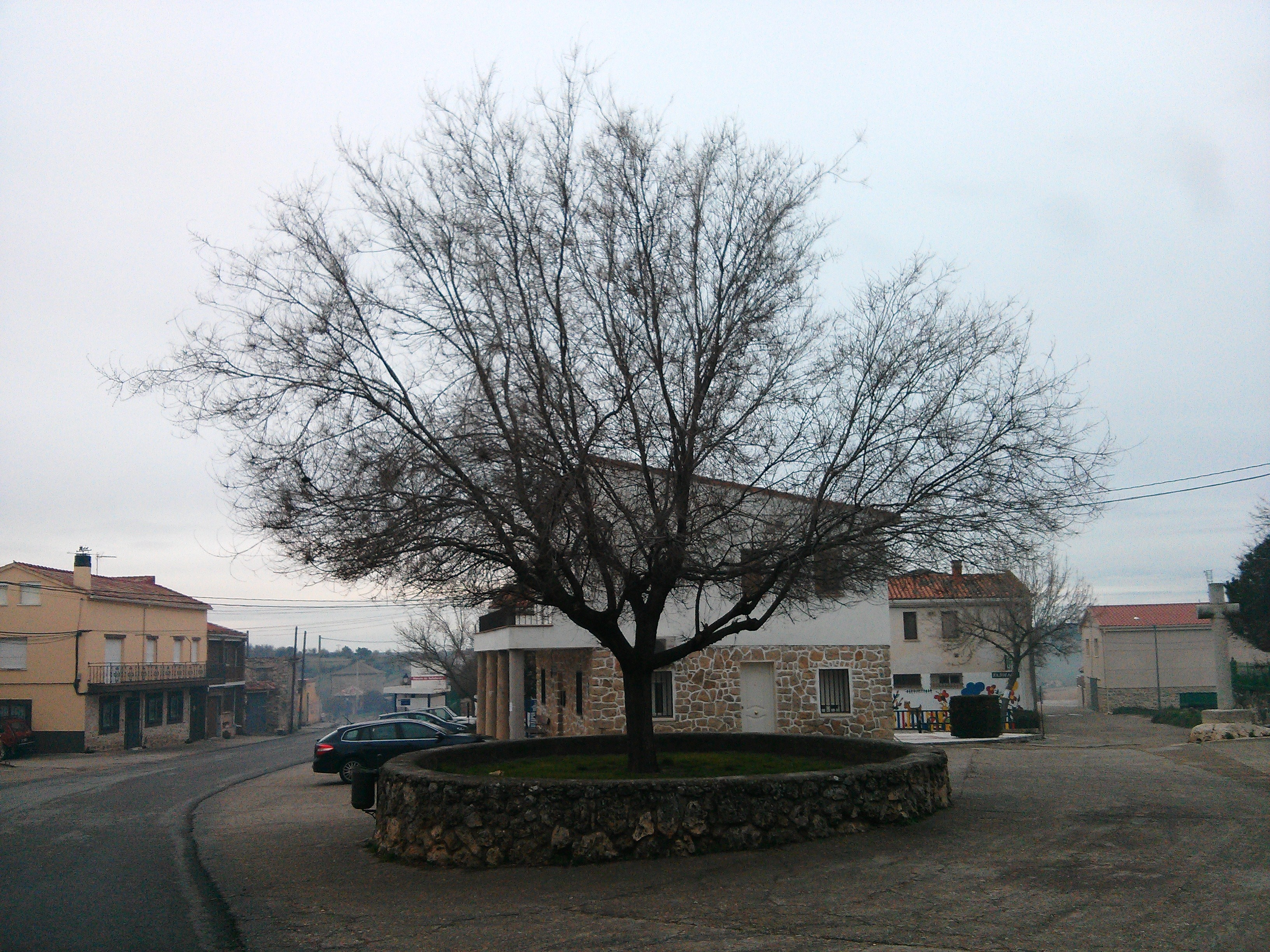 Olmo's Square, Valdepeñas de la Sierra, Spain.